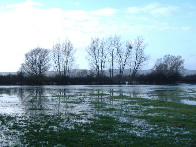 Walmore Common Wetland area notified as Special Protection Area under EU Birds Directive. Flat low-lying land, difficult to drain to tidal River Severn. Floods in winter and attracts water birds.